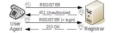 SIP User Agent registration on SIP Registrar with authentification by login